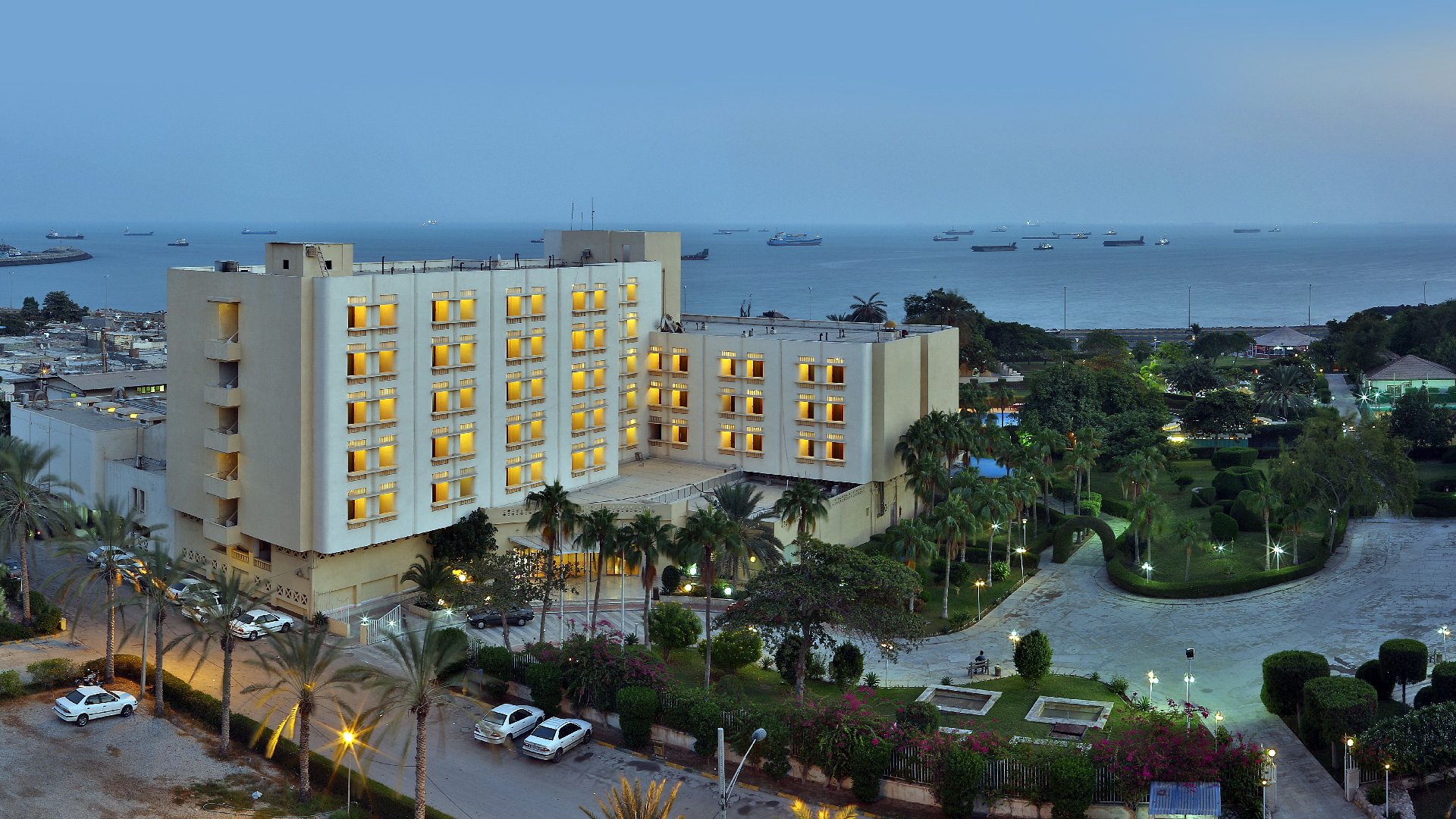 هتل هما بندرعباس